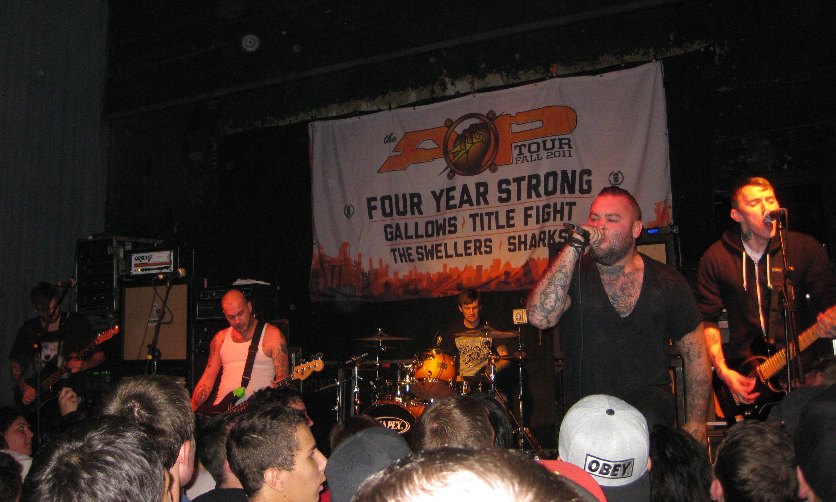 Gallows performing on November 6, 2011 at Soma in San Diego, California as part of The AP Tour Fall 2011. Left to right: guitarist Laurent "Lags" Barnard, bassist Stuart Gili-Ross, drummer Lee Barratt, singer Wade MacNeil, and guitarist Steph Carter.